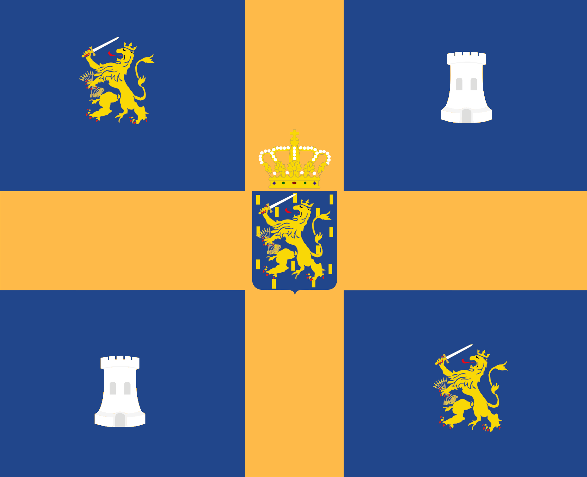 Standard of Claus von Amsberg (1926-2002) as Royal consort of the Netherlands.